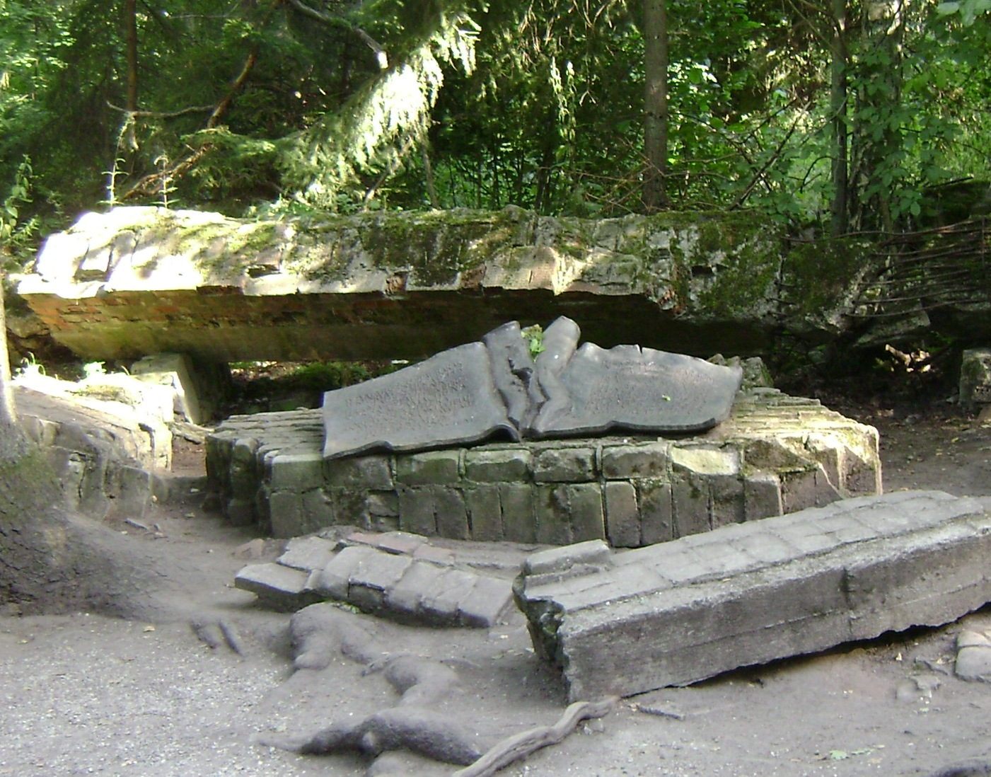 Poland. Kętrzyn. Gierłoż. Wolf's Lair.